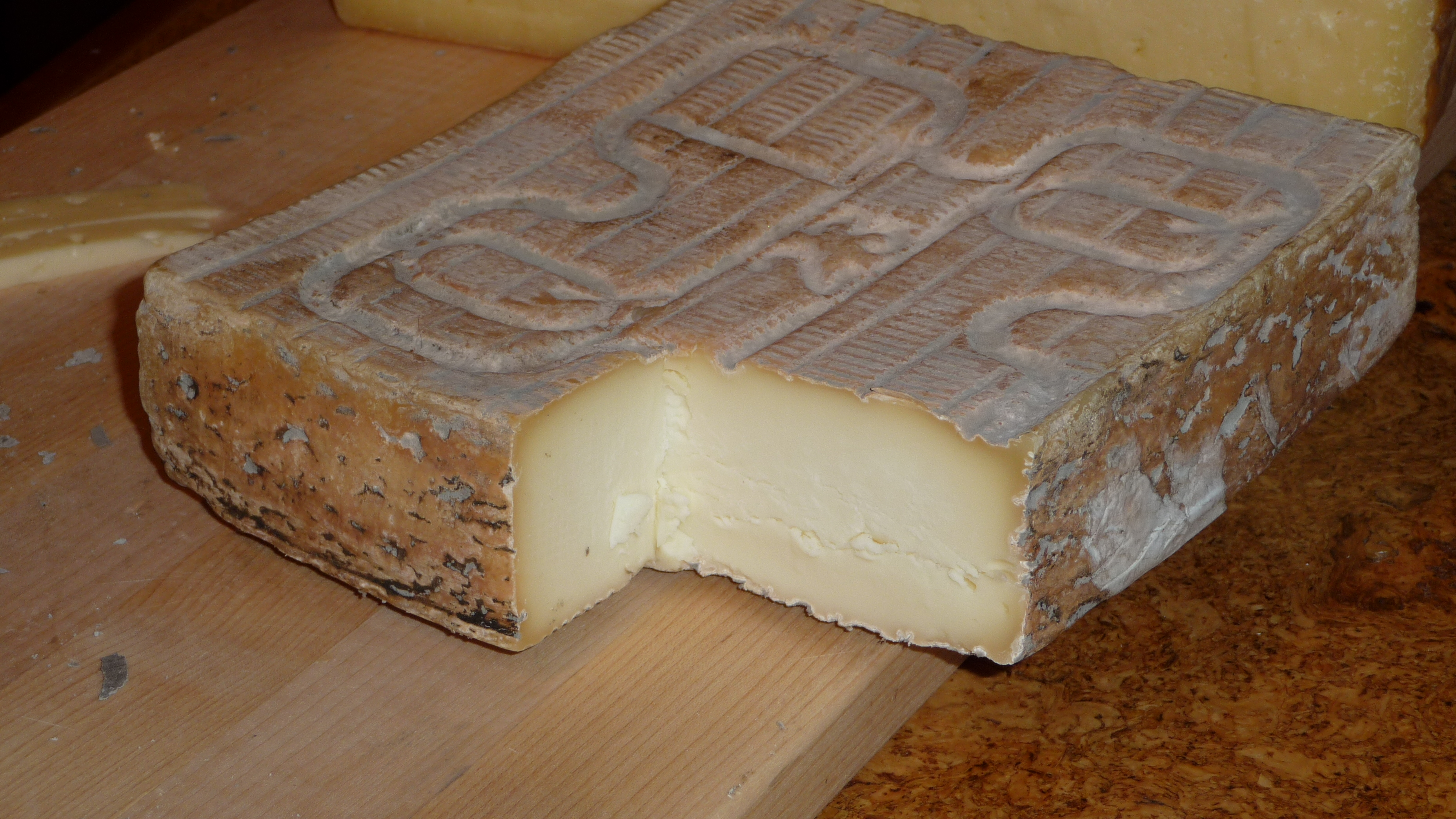 Very strong soft cheese with square share, pink rind with some green mold.